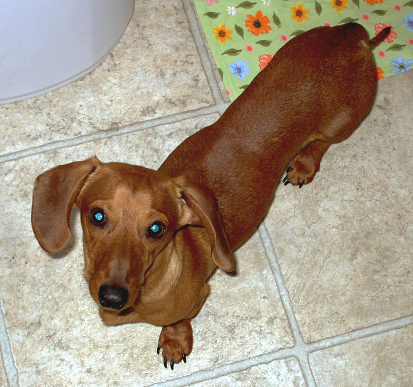 Photo of Gustav (a.k.a. Gus the Bus) (born July 3, 2006), a male miniature dachshund. Approximate age in photo: 8 months. Taken by Kinu Panda, March 17, 2007. Released under GFDL and CC-BY-SA 3.0.